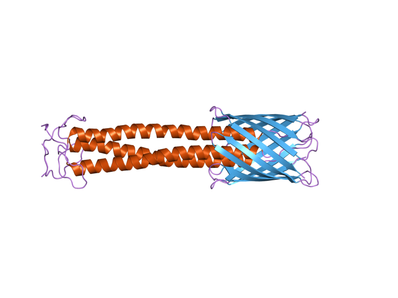 Cartoon representation of the molecular structure of protein registered with 3emo code.